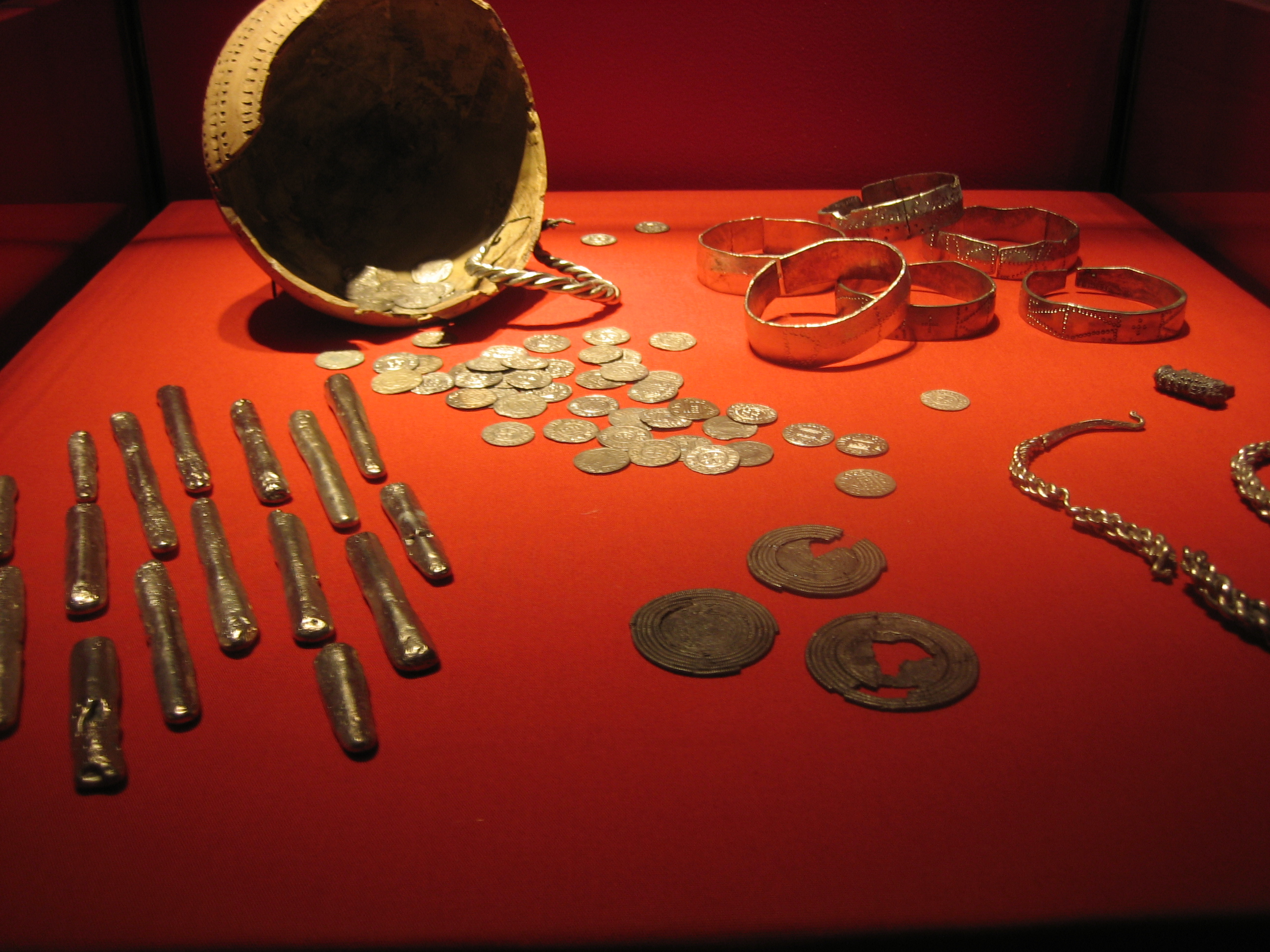 A hoard of Viking treasure now located in the Rijksmuseum van Oudheden (Leiden Museum). NOTE: This image makes the horde appear to consist of gold while in fact it is all silver. See [1] and [2] for true color image and history of this find.